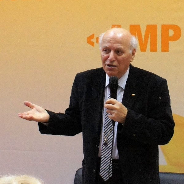 Moscow International Book Fair 2011. Teacher and author Shalva Amonashvili speaks.